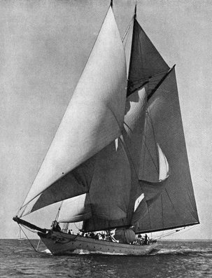 The yacht Meteor III owned by German Emperor William II